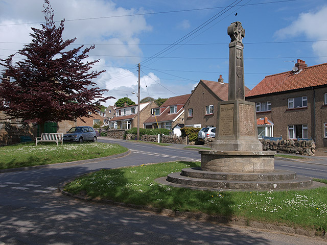 Aislaby war memorial Situated at the junction of Moor Lane and Egton Road